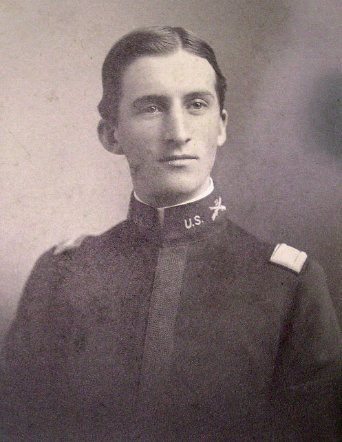 Hugh A. Drum in 1902, the year he received the Silver Star for his role in the Battle of Bayan.